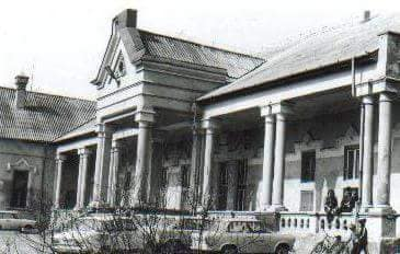 Zichy Mansion, Zichyújfalu, Fejér County, Hungary in 1980